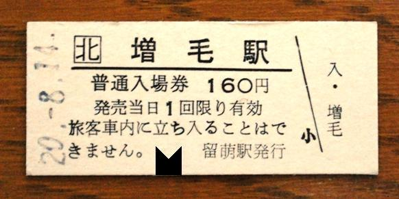 ticket of Mashike station